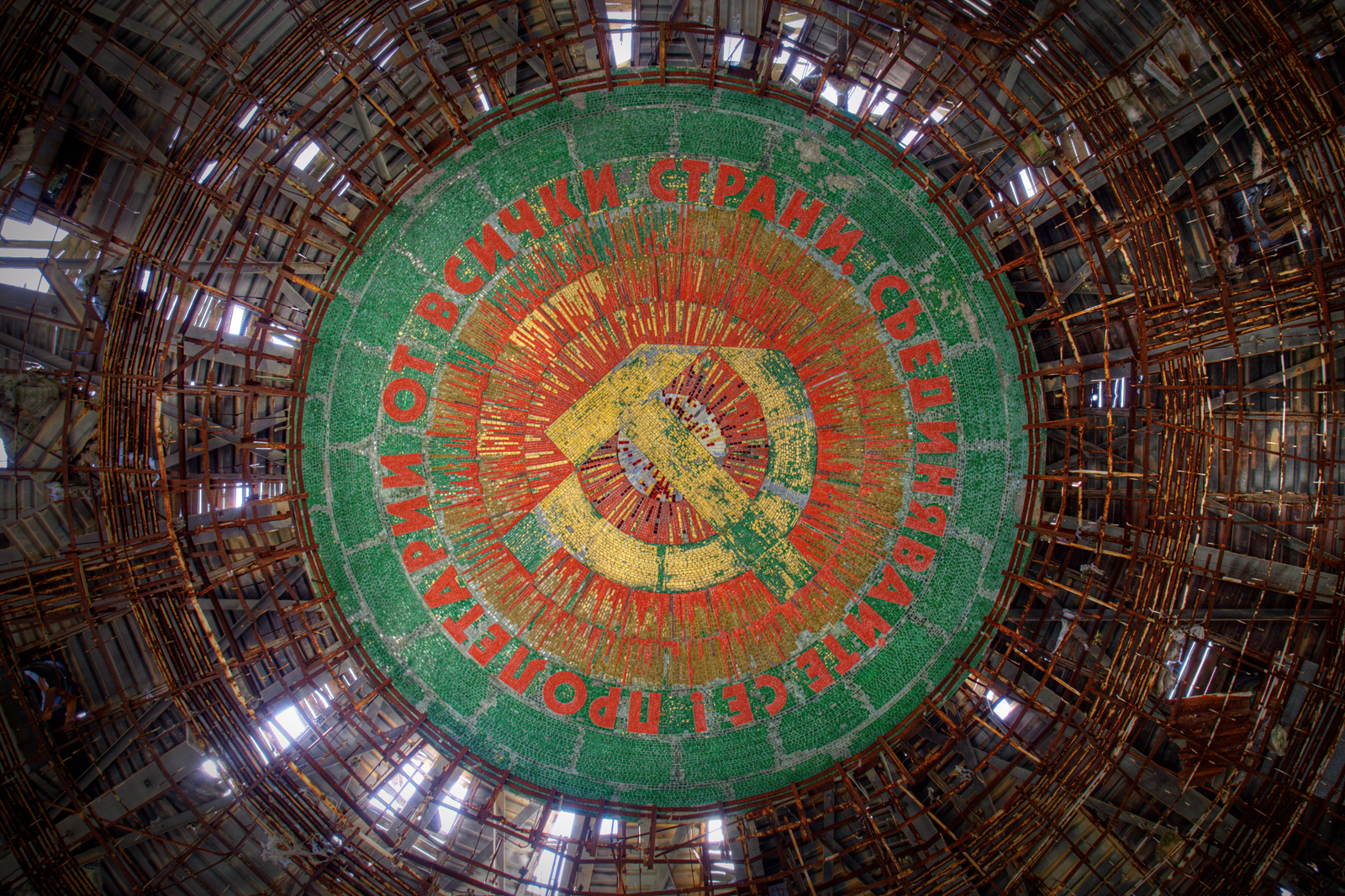 Buzludja monument. Balkan mountain range Bulgaria. Creative Commons does not mean Free Pictures. This image and many more from my Photostream are shared under Creative Commons licence. Author: Salva Barbera. You can use this image on websites, blogs or other media projects without my permission as long as you credit me as the Author. My images may not be used for any profane or immoral purpose or to incite violence or hatred. Please read the Creative Commons image licence guidelines before downloading. A link back to my Flickr account is not mandatory but highly appreciated.